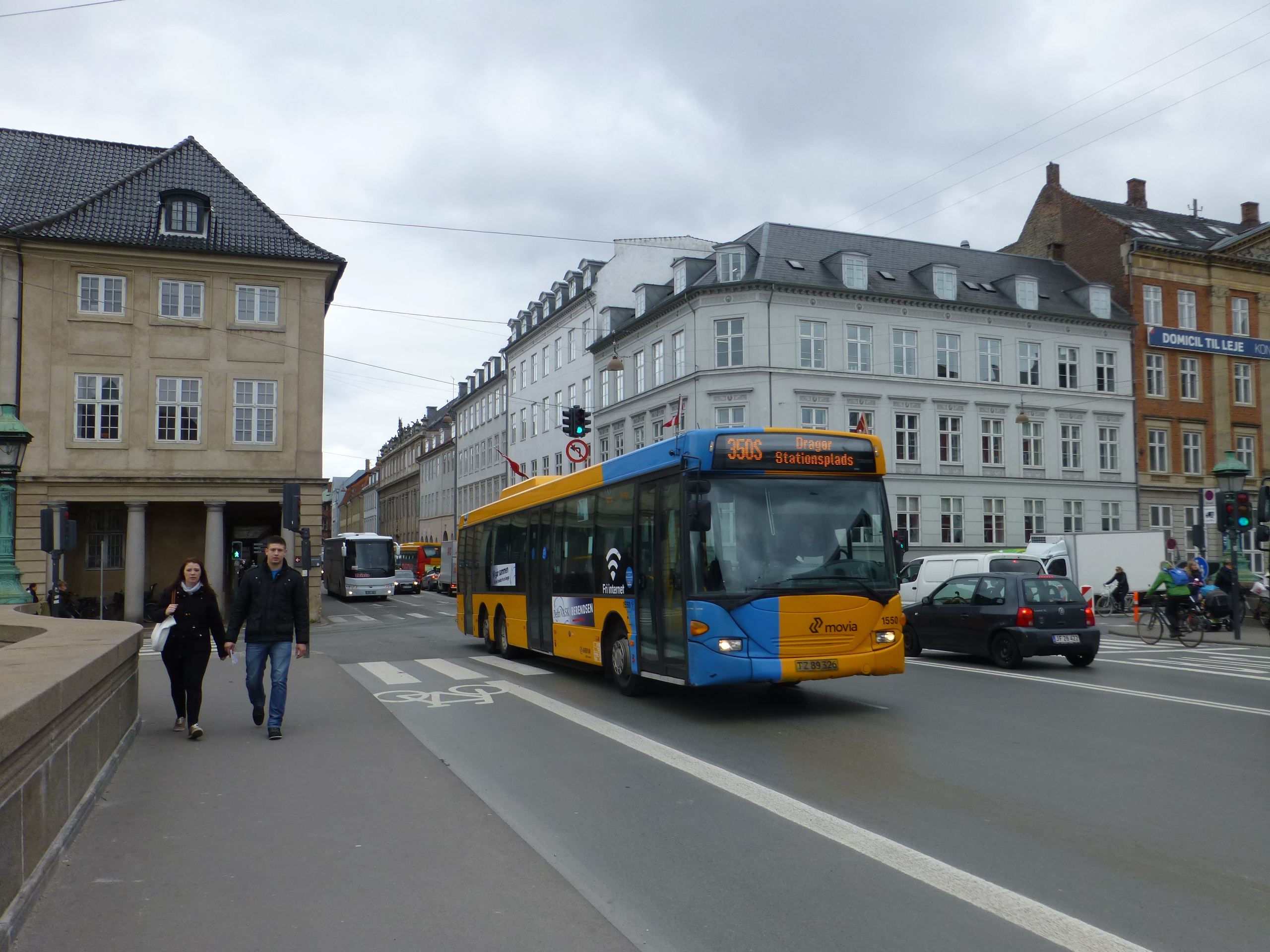 Movia bus line 350S on Stormbroen in Indre By in Copenhagen. Line 350S usually don't go here, but due to the celebrations of queen Margrethes 75 years birthday it had to go another way.